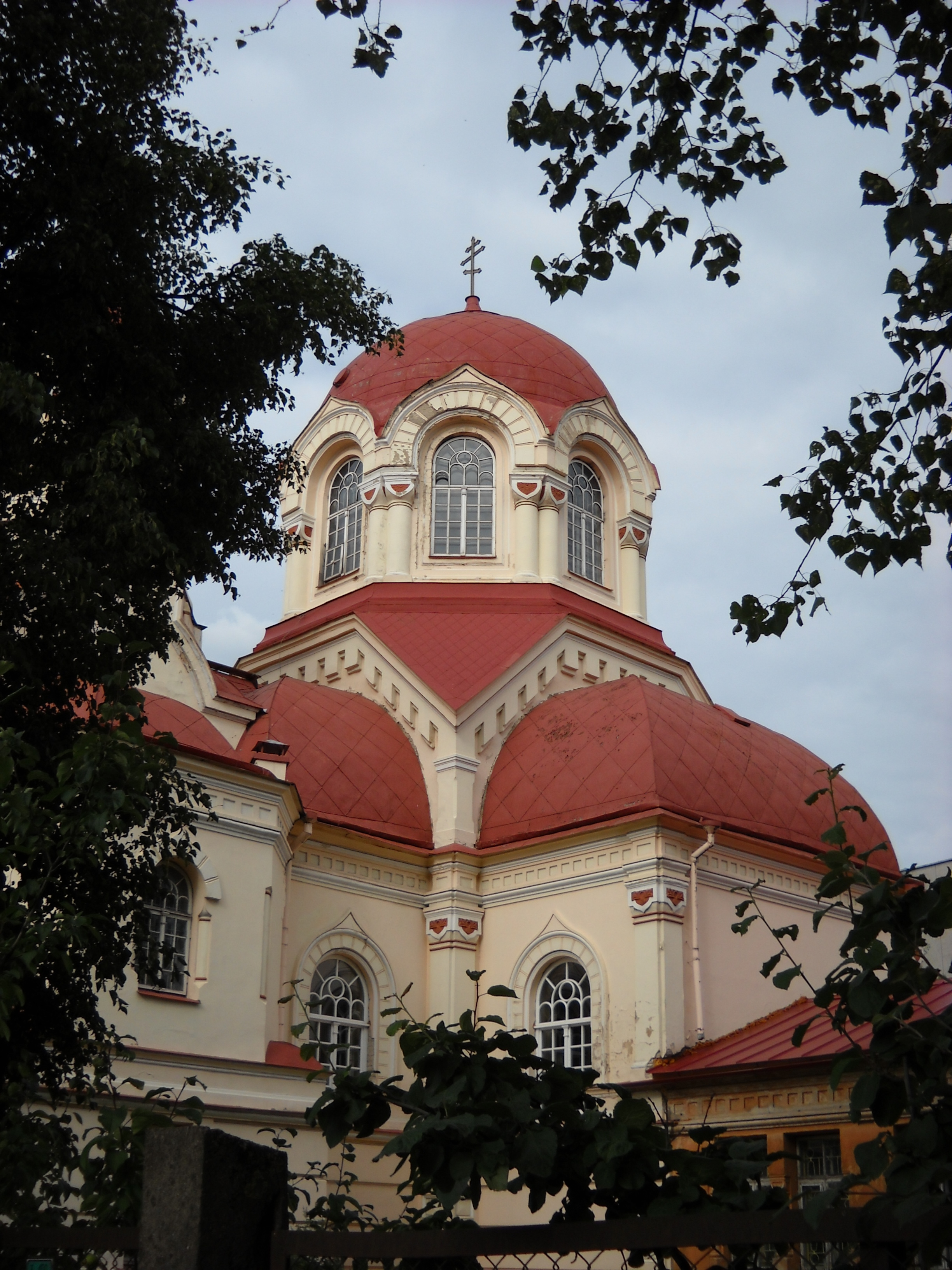 St. Michael Archangel Orthodox church, Vilnius